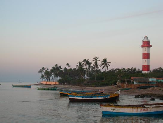 Download 3D model(kmz) of Lighthouse[1] for Google Earth.